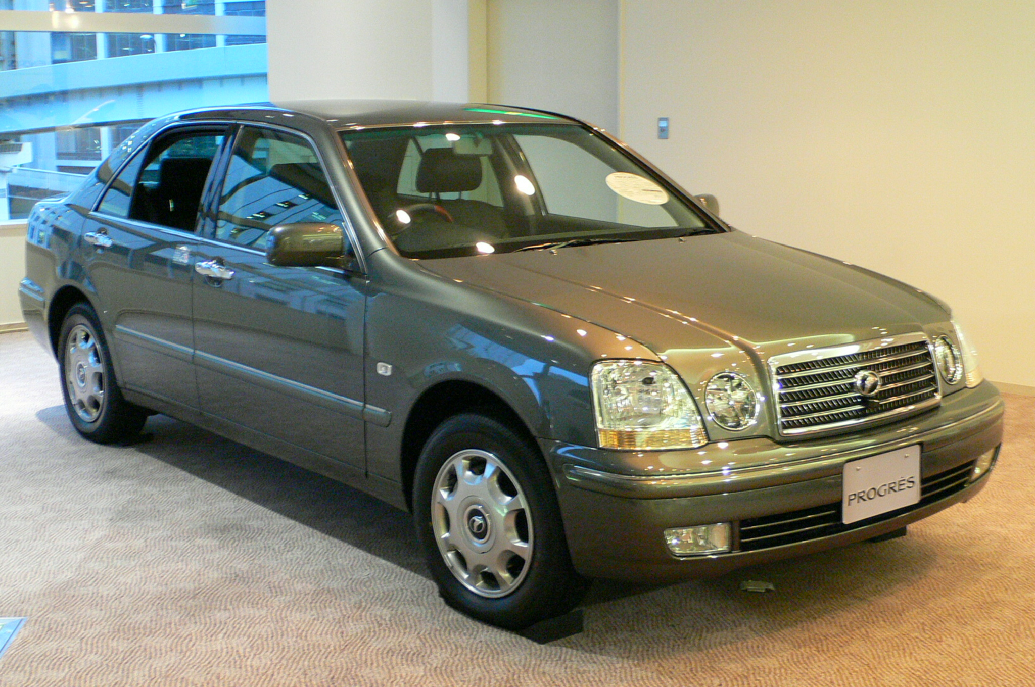 Toyota_Progre(2001) taken in Showroom of Toyota-AMLUX